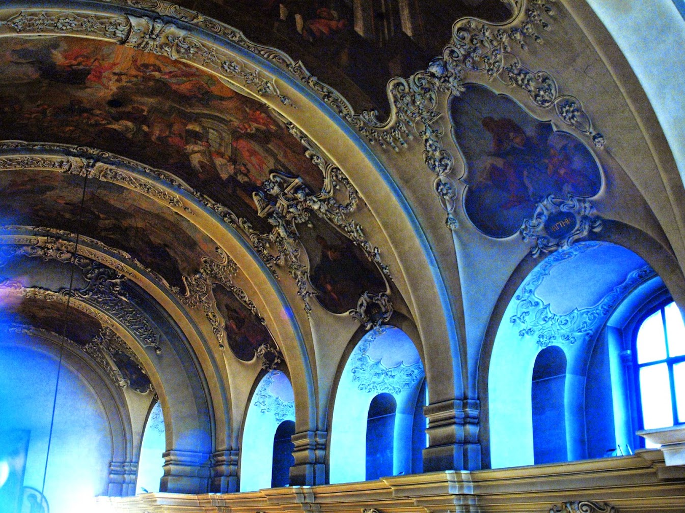 Interieur of the Orthodox Ss. Cyril and Methodius Cathedral in Prague, Czechia